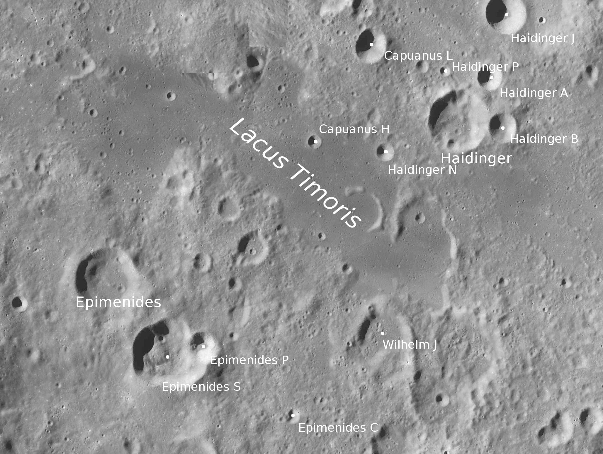 Lacus Timoris with craters Epimenides and Haidinger (detail of LRO - WAC global moon mosaic; Mercator projection)